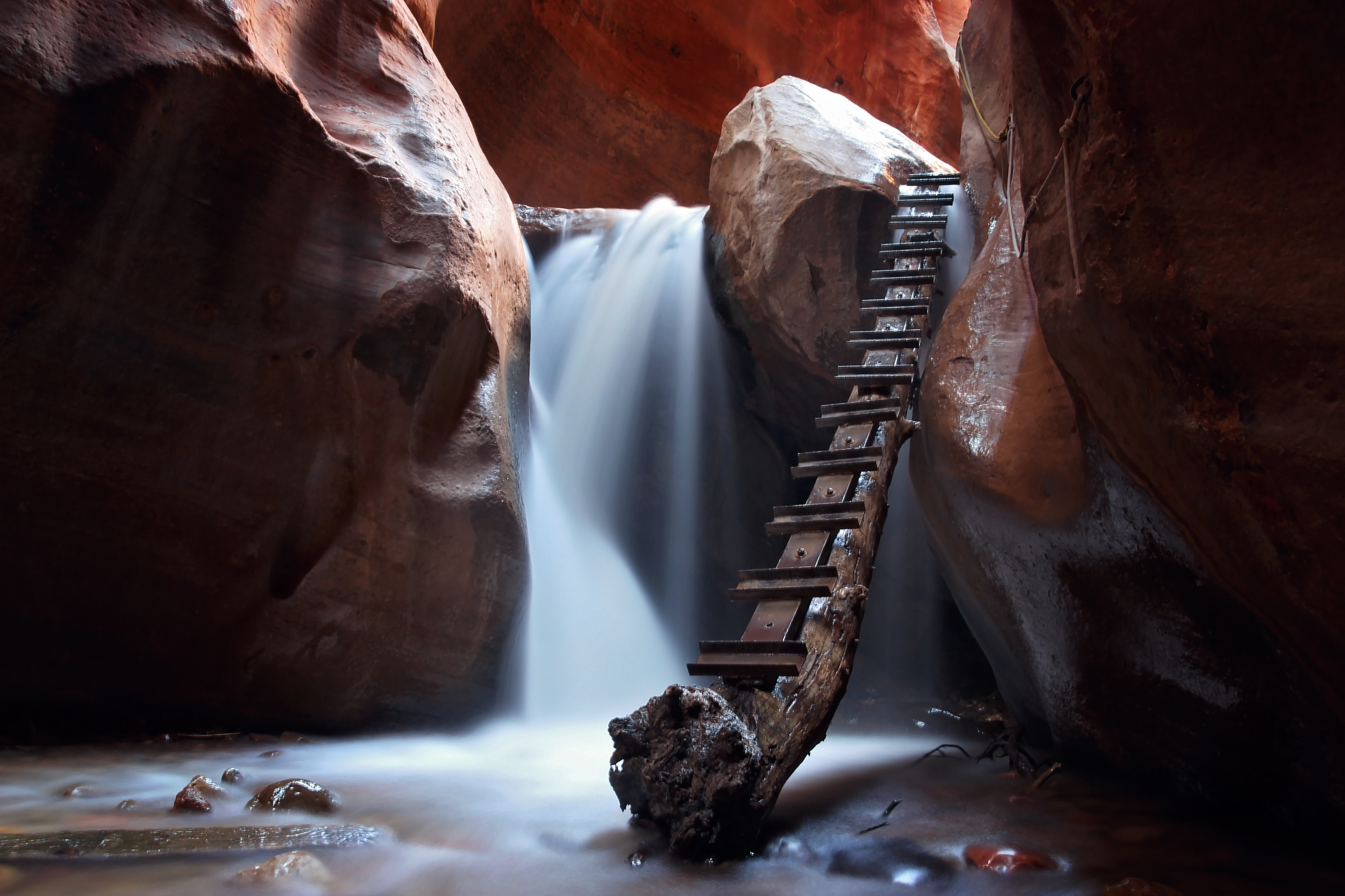 Kanarraville, United States